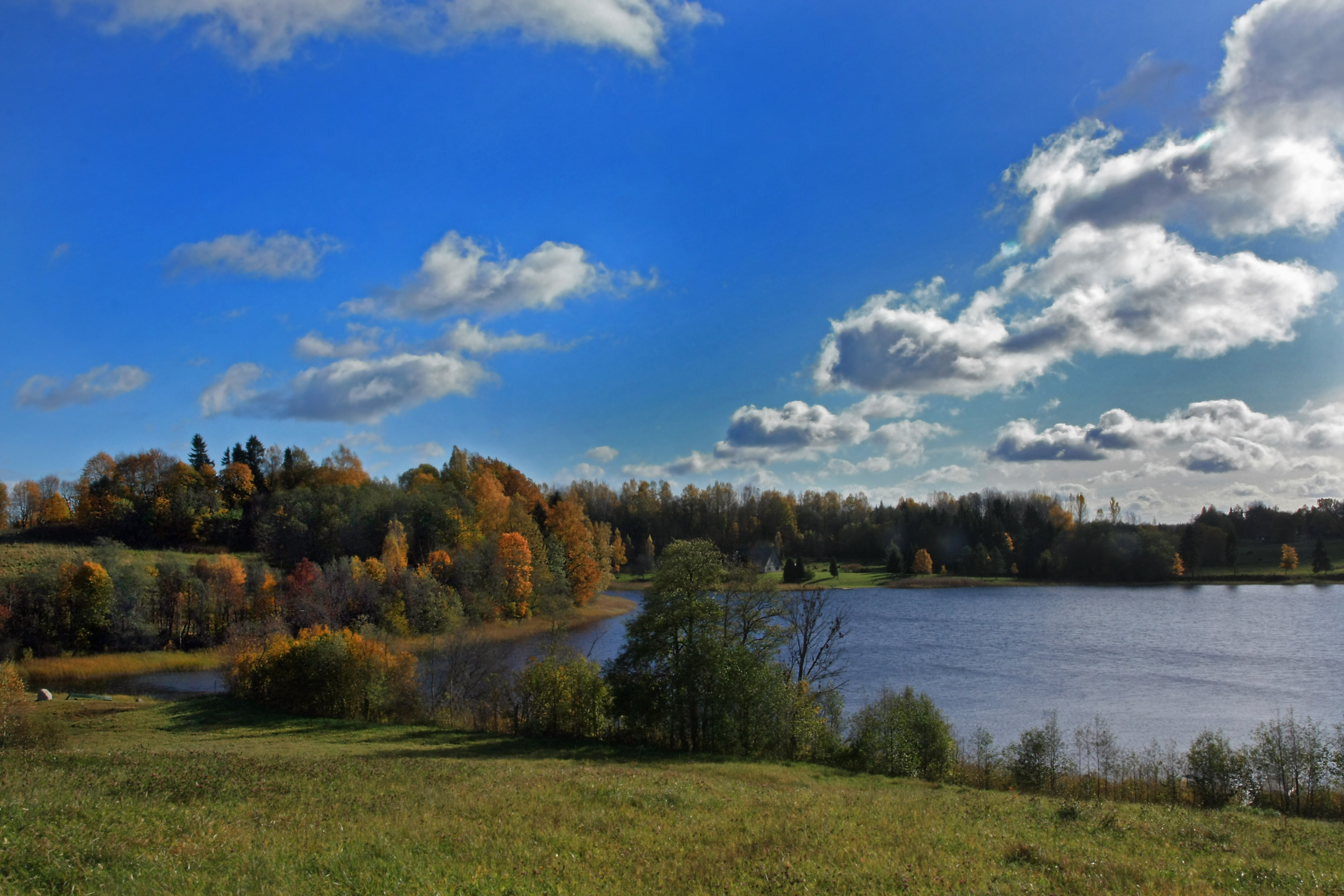 Lake Maior in southern Estonia